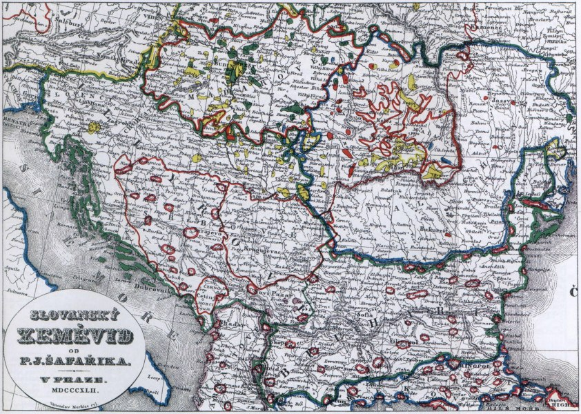 This map is piece of the „Slovansky zemêvid”, ethnographic map of Europe, which can be find here: [1]